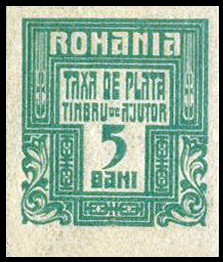 Romania war tax due stamp, 5 bani, green.